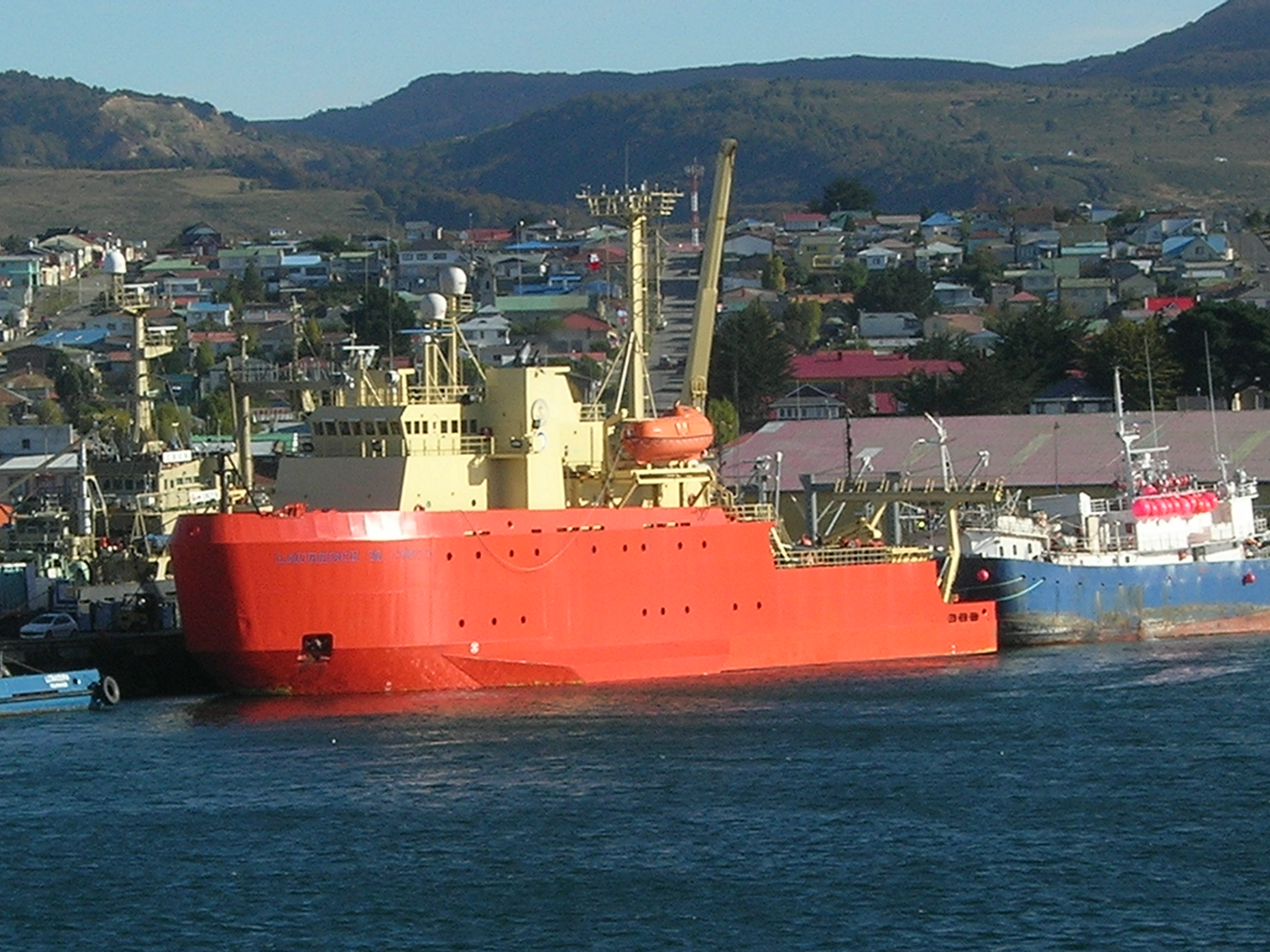 Description = Brise-glace americain dans le port de Punta Arenas ( Chili ) Source =Photo taken by Remi Jouan Date =Avril 2006 Author =Remi Jouan